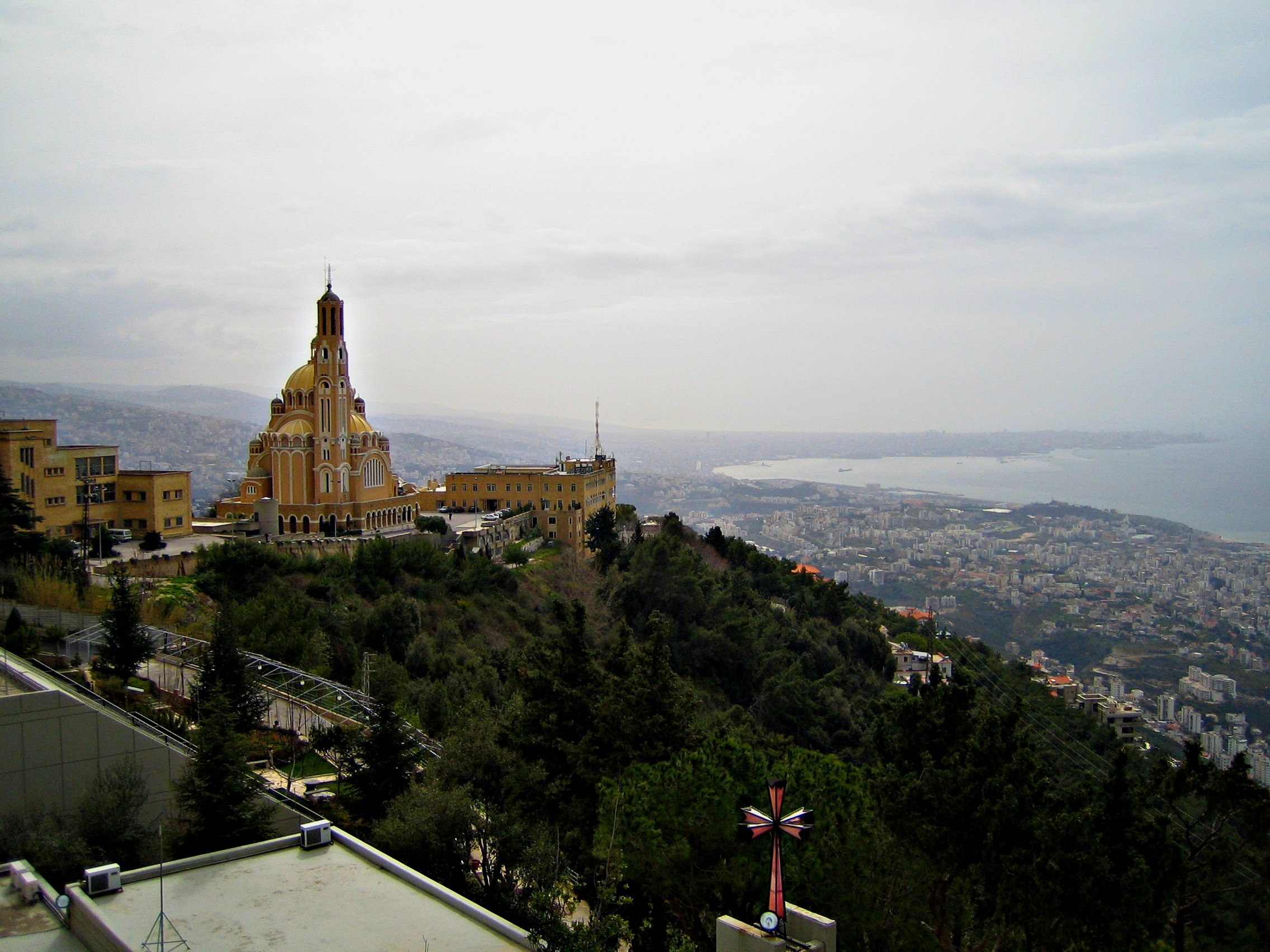 Hariza, north of Beirut